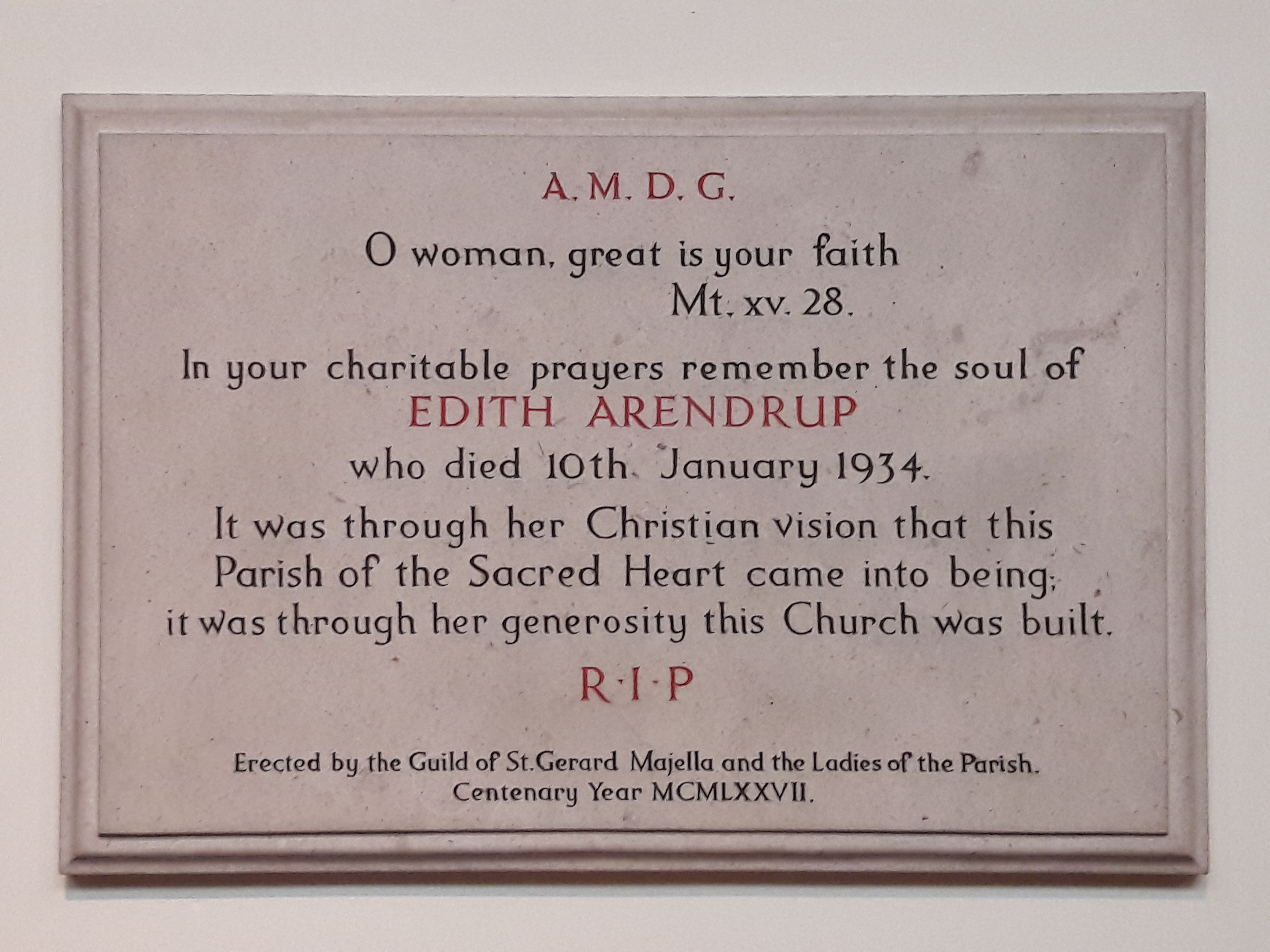 Plaque for Edith Arendrup in Sacred Heart Catholic Church in Wimbledon.